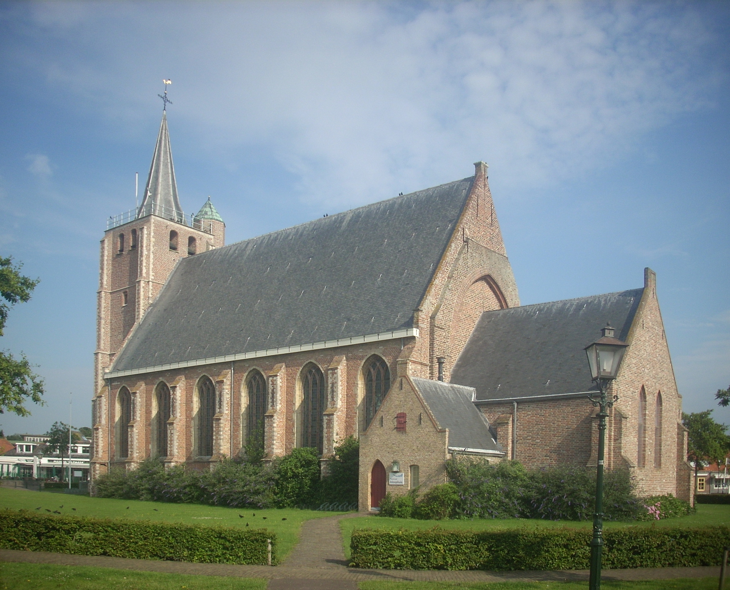 Renesse, Sint Jacobus church, south east